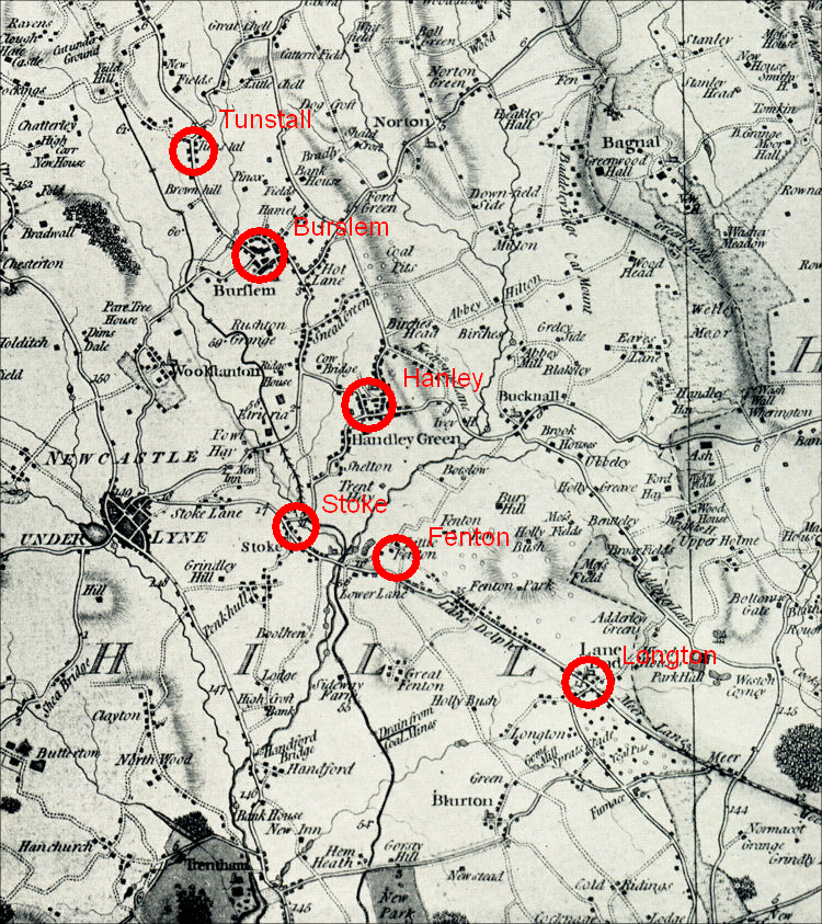 Section of W Yates 1775 Map of Staffordshire. This section shows the towns of the Potteries that later became the City of Stoke-on-Trent. The six towns highlighted for easier reference